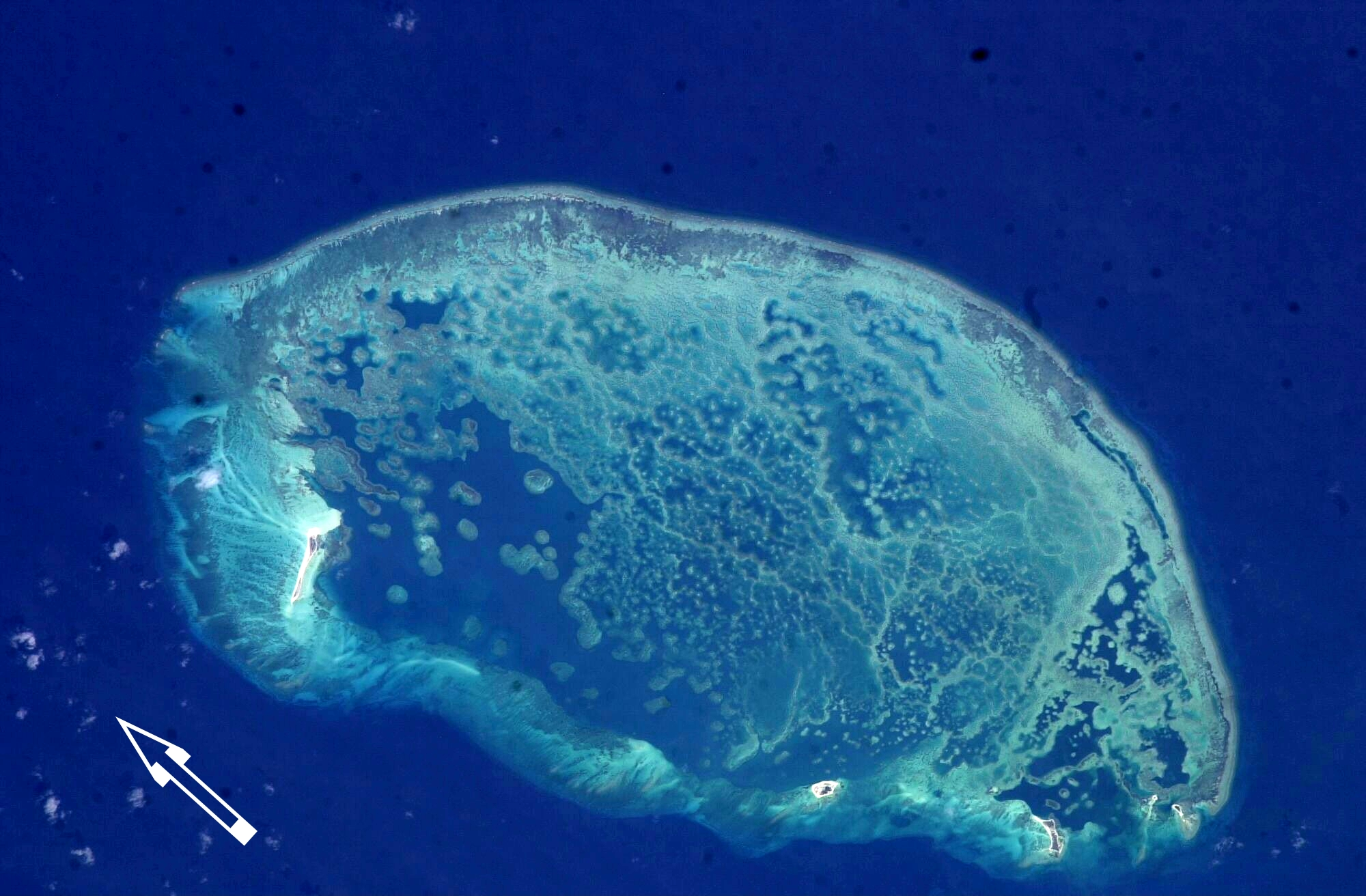 Arrecife Alacrán (atoll), Campeche Bank, Gulf of Mexico